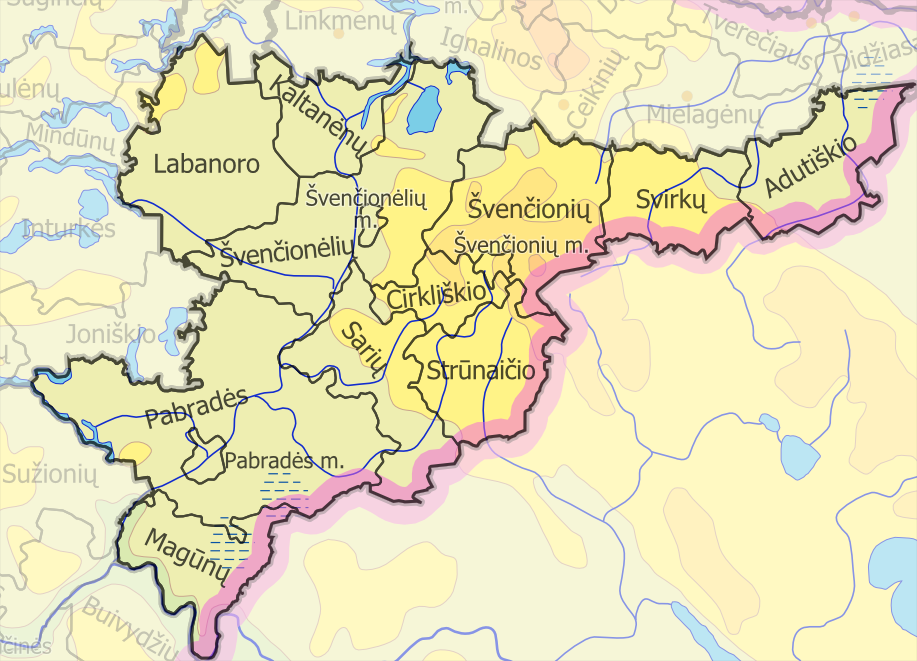 Subdivision of Švenčionys district municipality in Lithuania